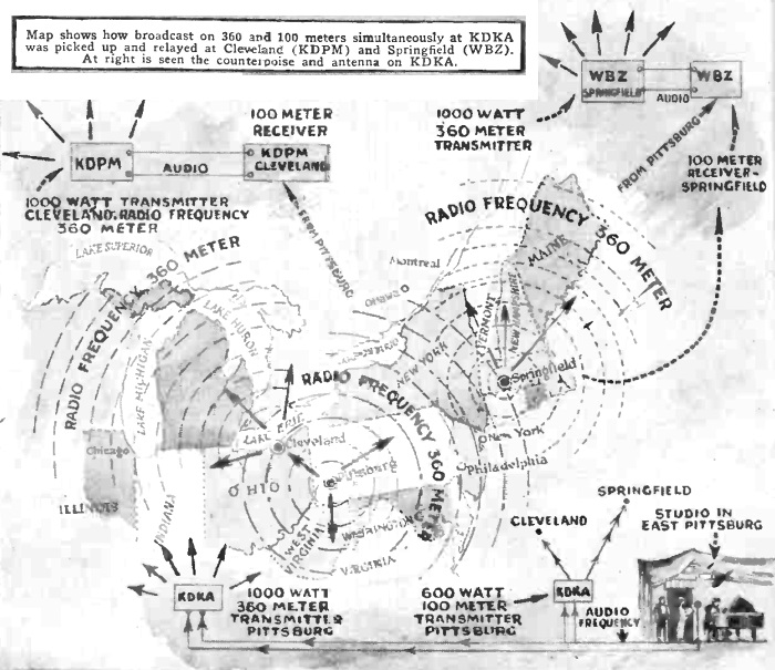 In 1923, the Westinghouse Electric & Manufacturing Co. operated shortwave links to provide for the retransmission of the programming from broadcasting station KDKA in East Pittsburgh, Pennsylvania over its broadcasting stations KDPM in Cleveland, Ohio and WBZ in East Springfield, Massachusetts.